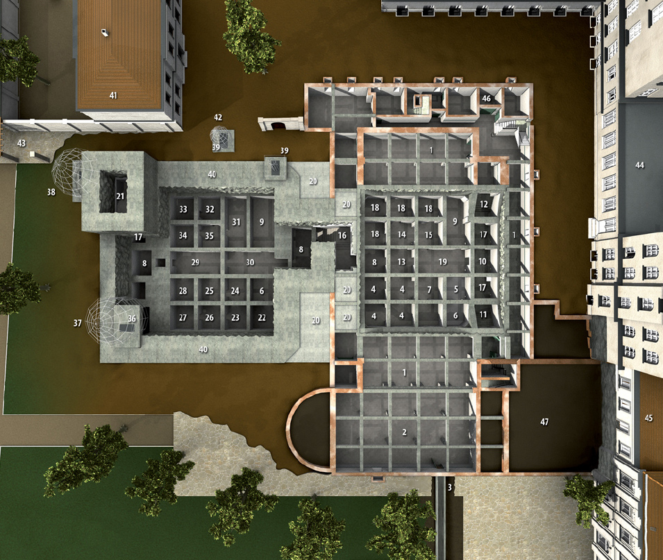 Map of the Führerbunker, see legend below